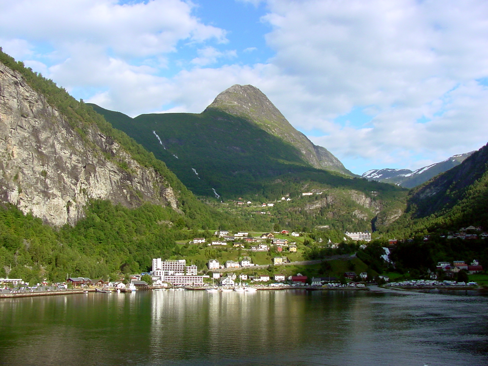 View of Geiranger